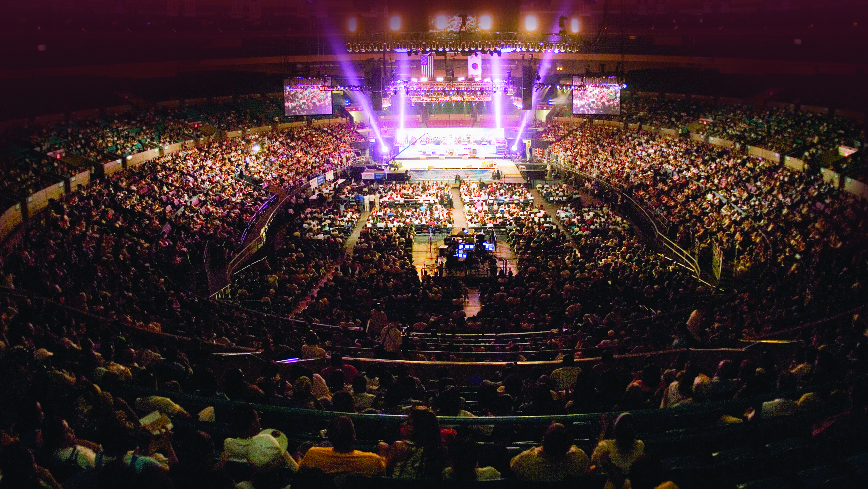 Salvation Miracles Revival Crusade with Dr Jaerock Lee in New York, USA(2006)